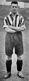 I scanned this from a 'Topical Times' collectors card. The photo shows Bobby Barclay wearing Sheffield United colours in 1933.